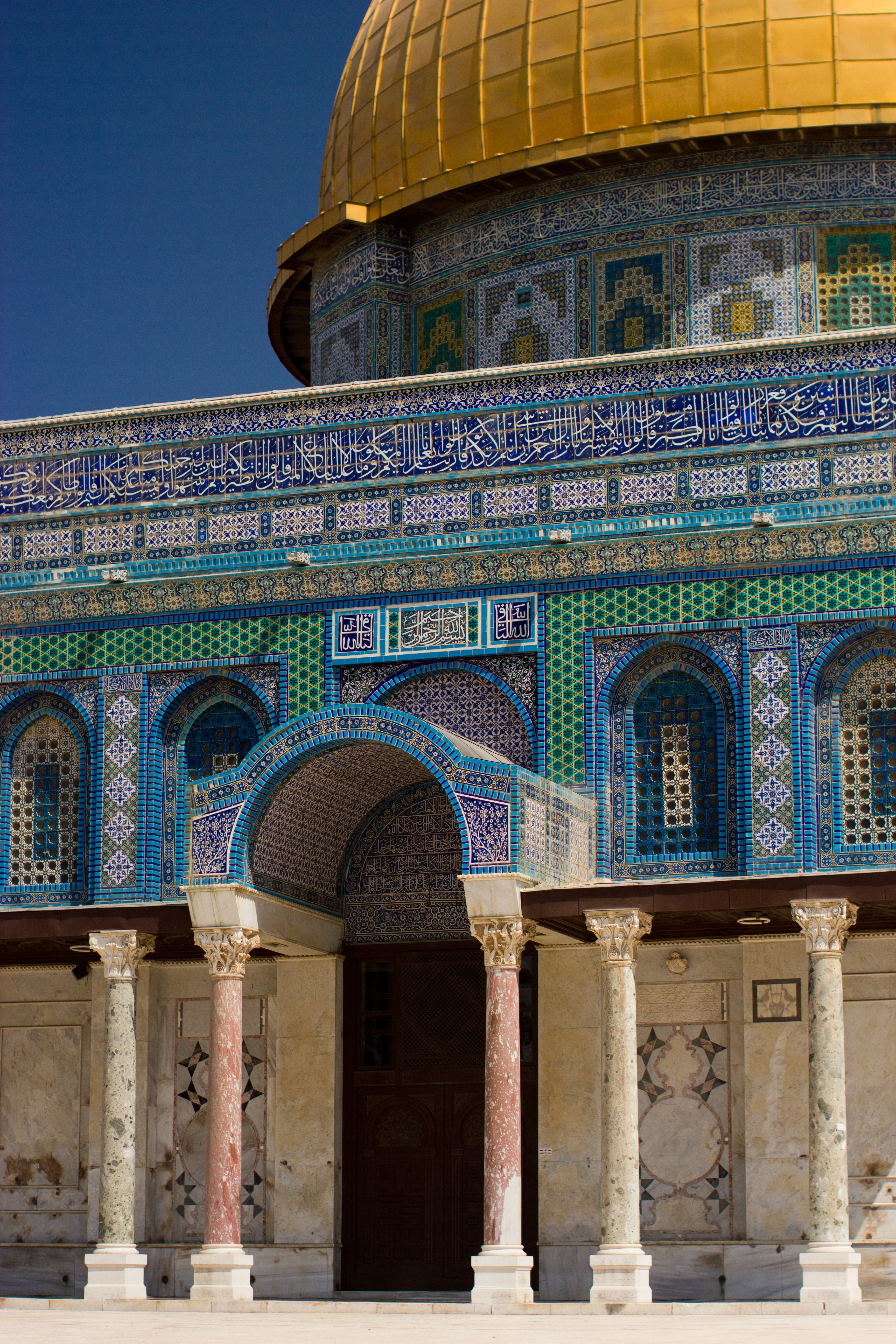 Image of Dome of the Rock in Jerusalem